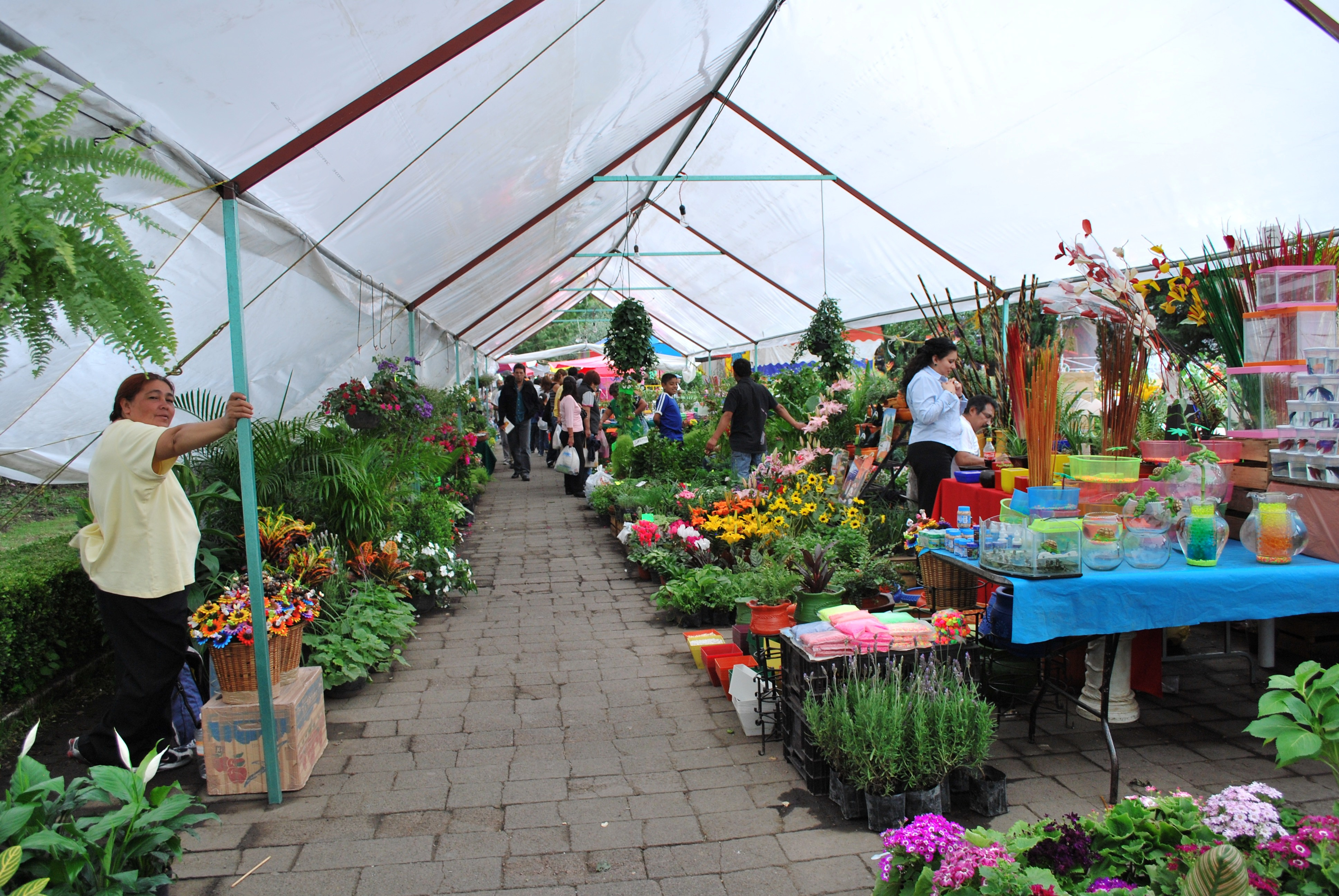 Flowers and other plants for sale at the Flower Festival of San Angel, Mexico City